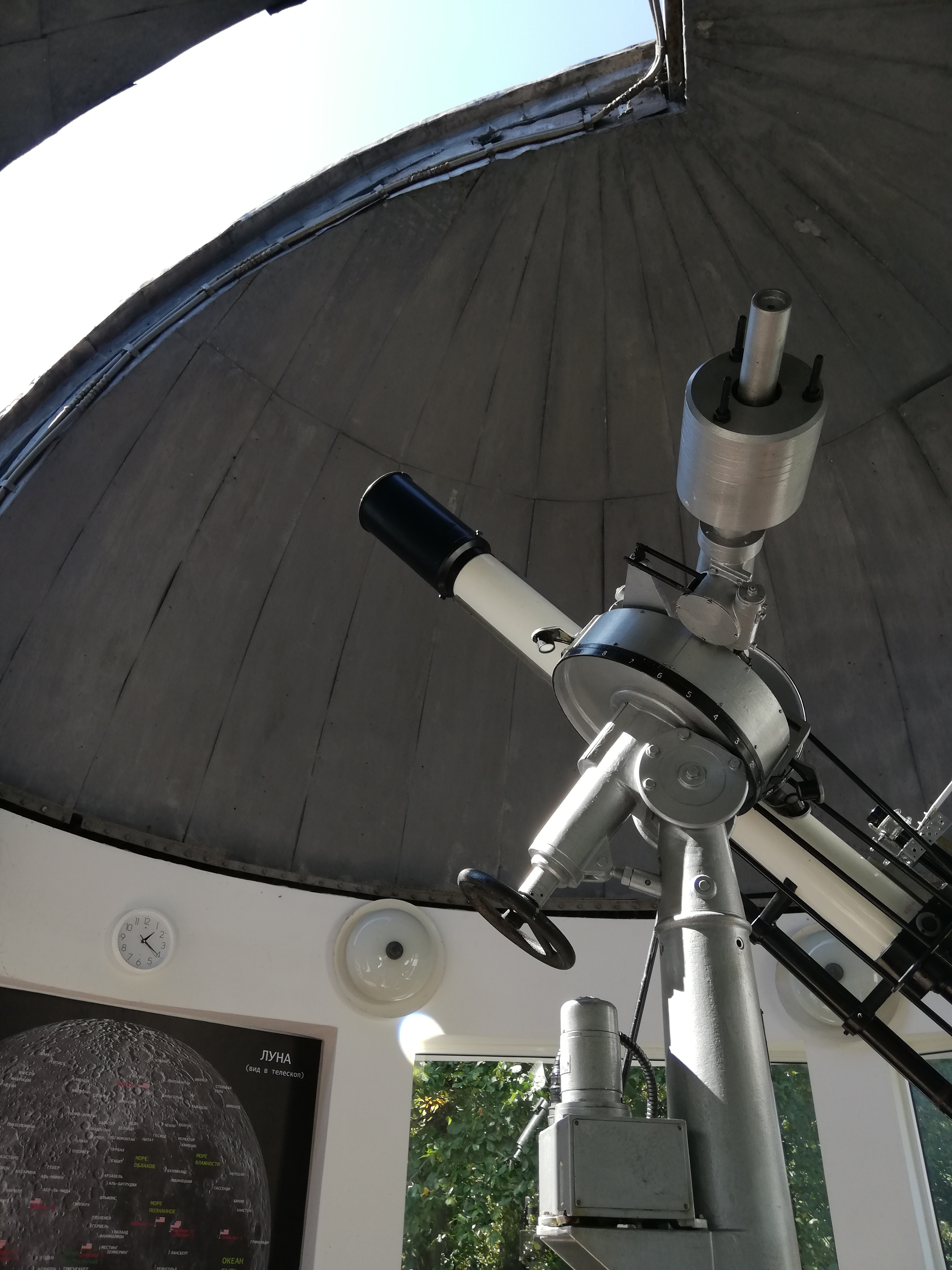 Telescope in planetarium (Minsk)